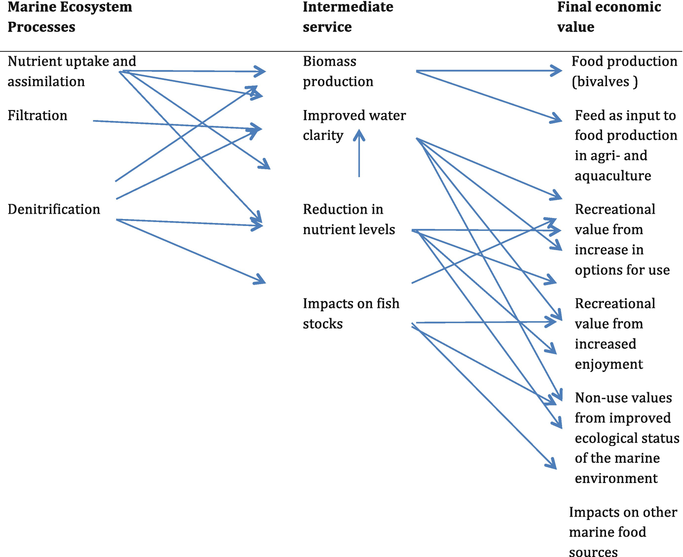 Economic value of bivalve nutrient extraction. Linking processes to services to economic values. The arrows are illustrative and not a complete mapping of the interconnection between the different aspects.